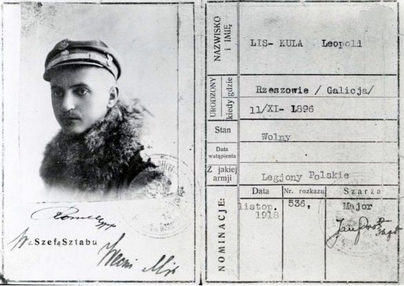 Leopold Lis-Kula (1896-1919), colonel of the Polish Army Identity Card 1918